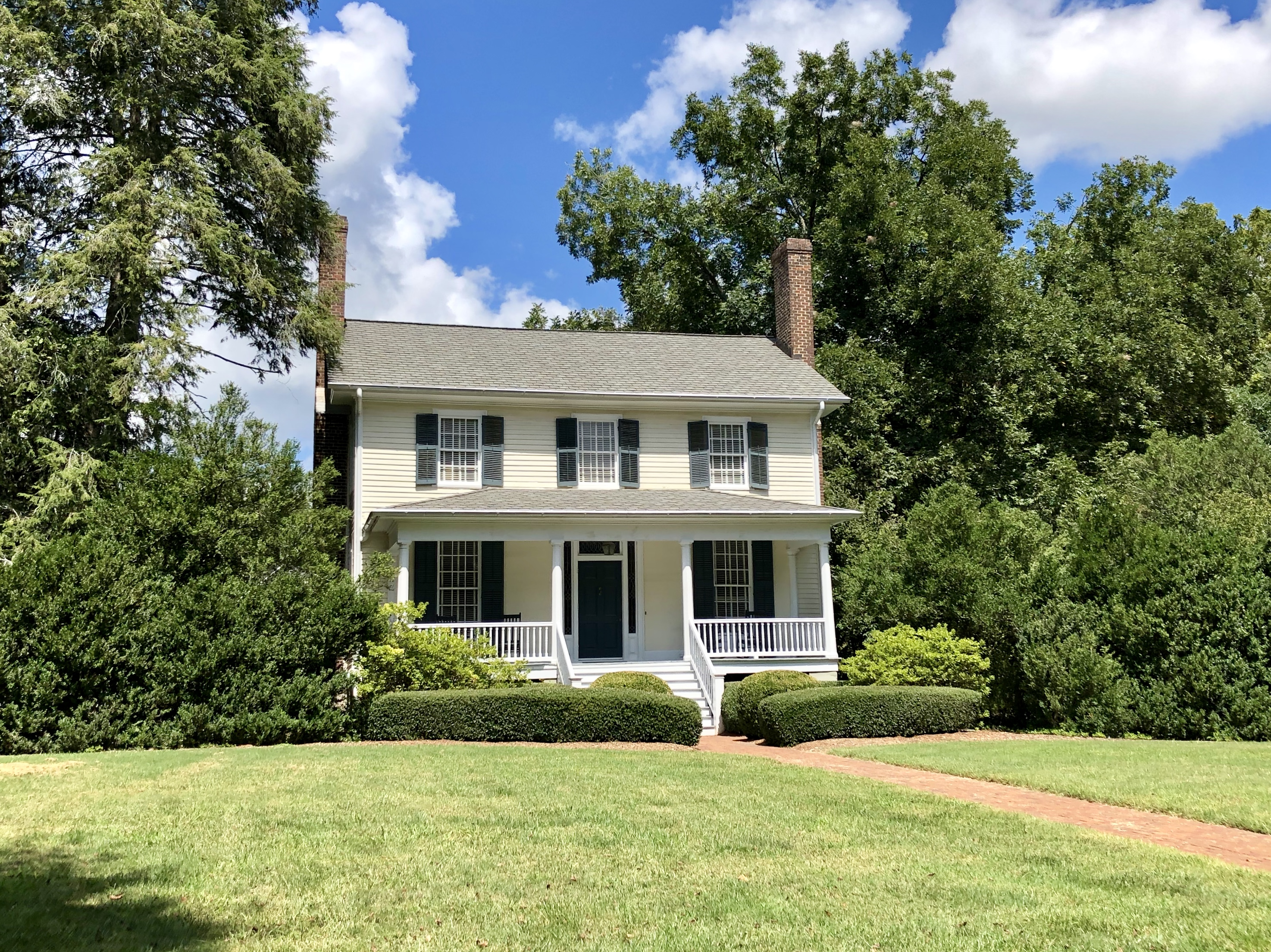 This is the Nash-Hooper House (William Hooper House), located on Tryon Street in Hillsborough, North Carolina. Constructed in 1782, the house was listed on the National Register of Historic Places and designated a National Historic Landmark in 1971